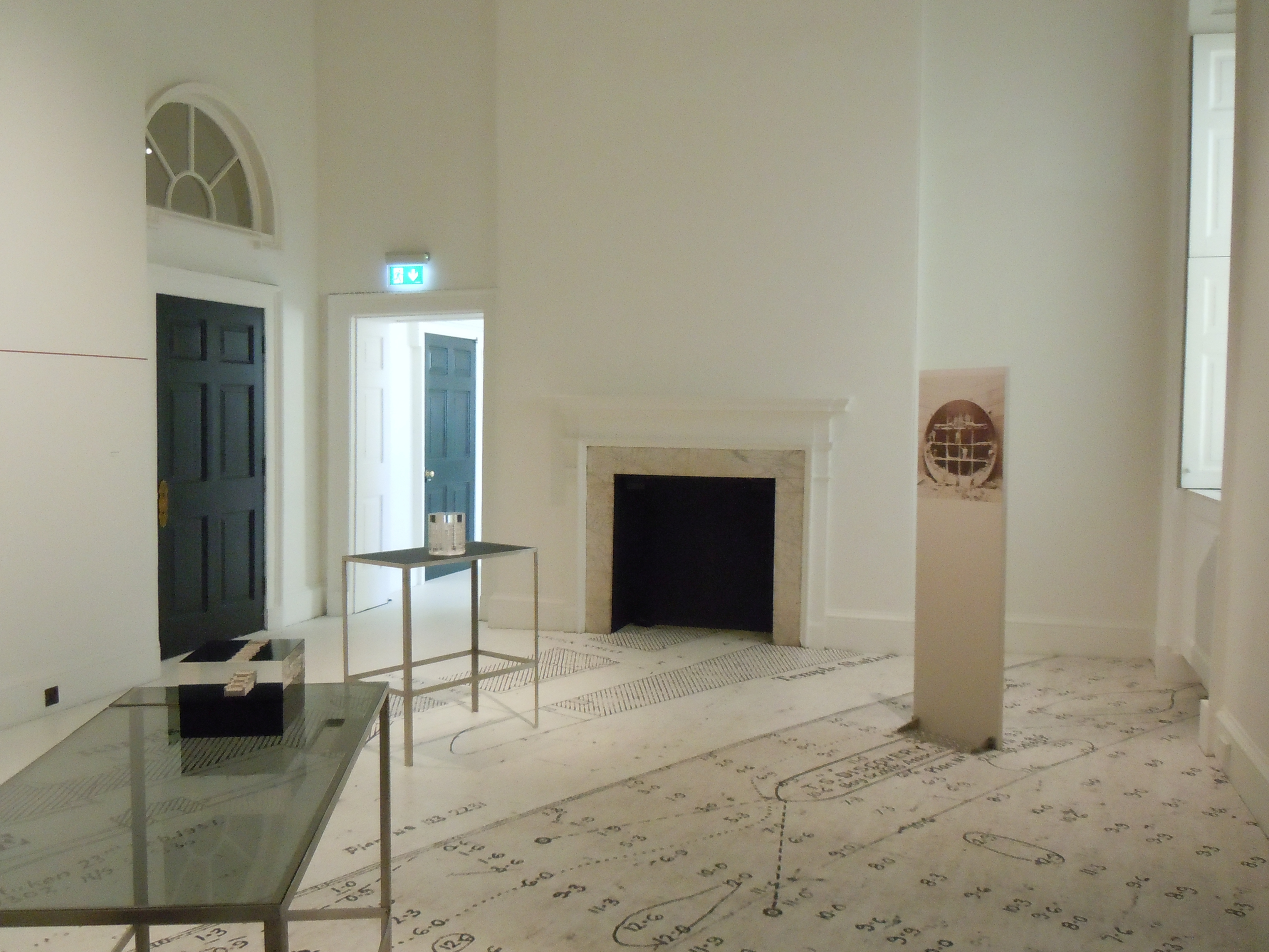 "Eloise Hawser: By the deep, by the mark" at Somerset House, part of the Charles Russell Speechlys Terrace Room Series.